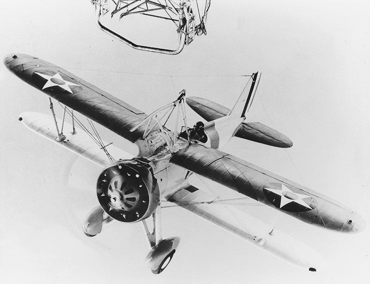 A U.S. Navy Curtiss F9C-2 "Sparrowhawk" fighter about to hook onto the aircraft trapeze of USS Akron (ZRS-4), circa 1932-1933. Note the configuration of Akron's trapeze, which had been modified from its original arrangement in mid-1932.